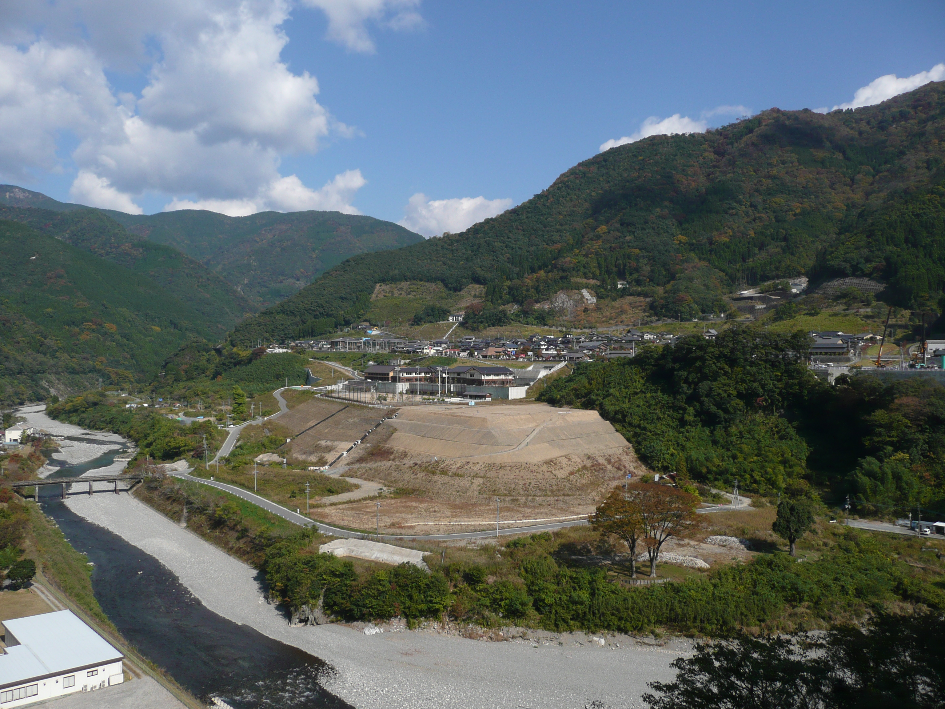 Toji, Itsuki Village, Kumamoto Prefecture, Japan